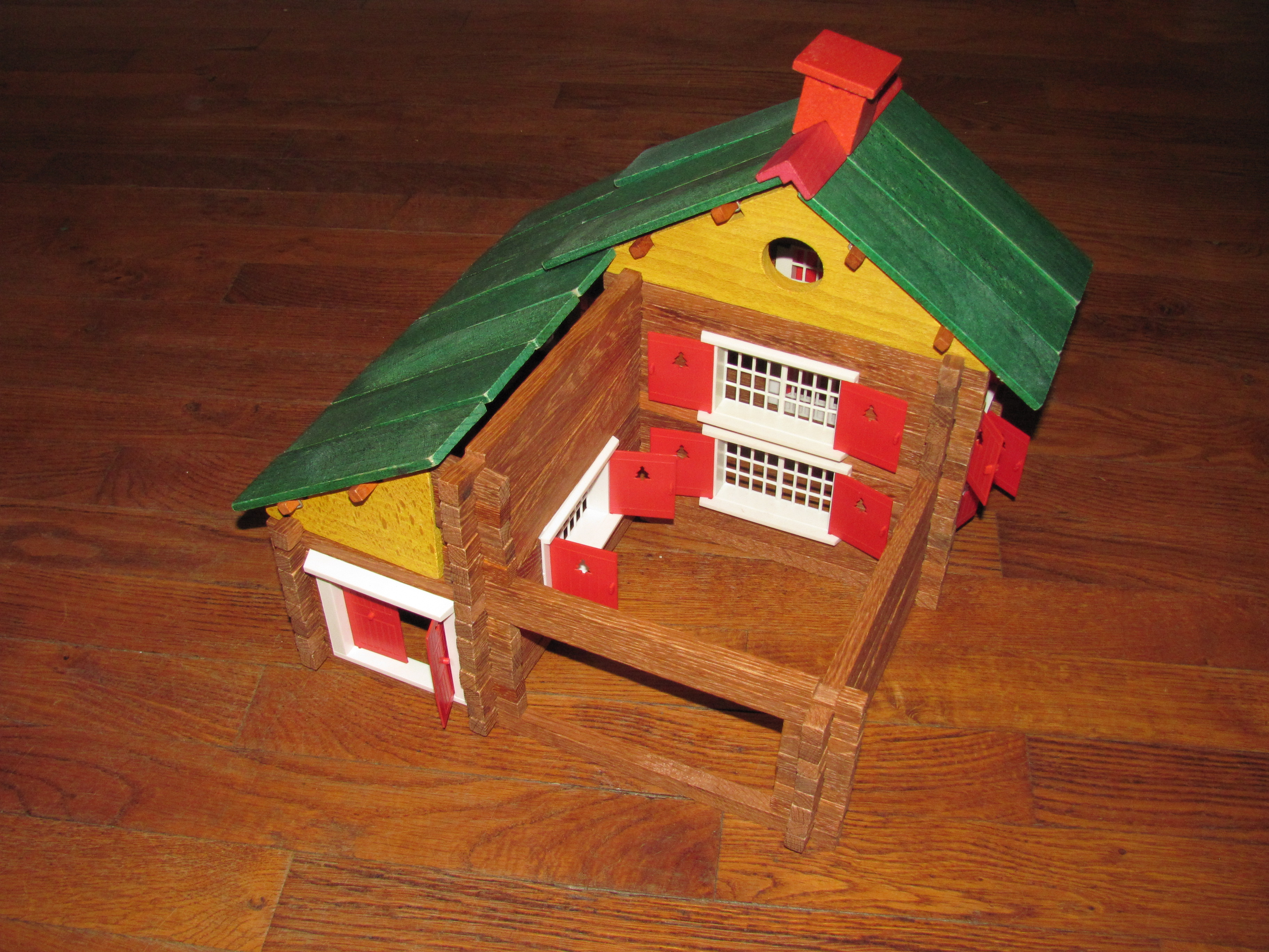 Wooden switzerland house toy construction Set from JeuJura